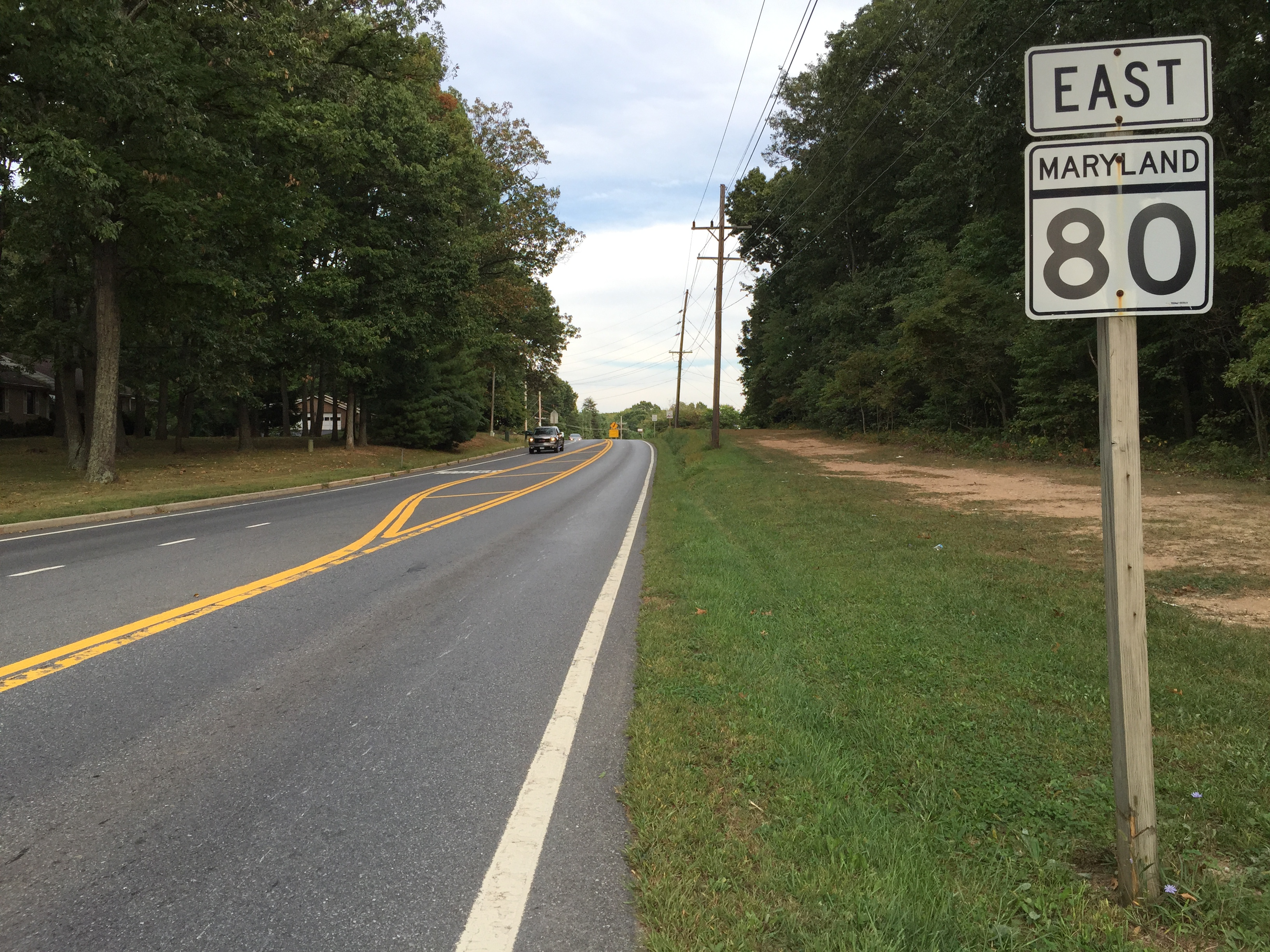 View east along Maryland State Route 80 (Fingerboard Road) between Maryland State Route 75 (Green Valley Road) and Chaucer Court in Fountain Mills, Frederick County, Maryland